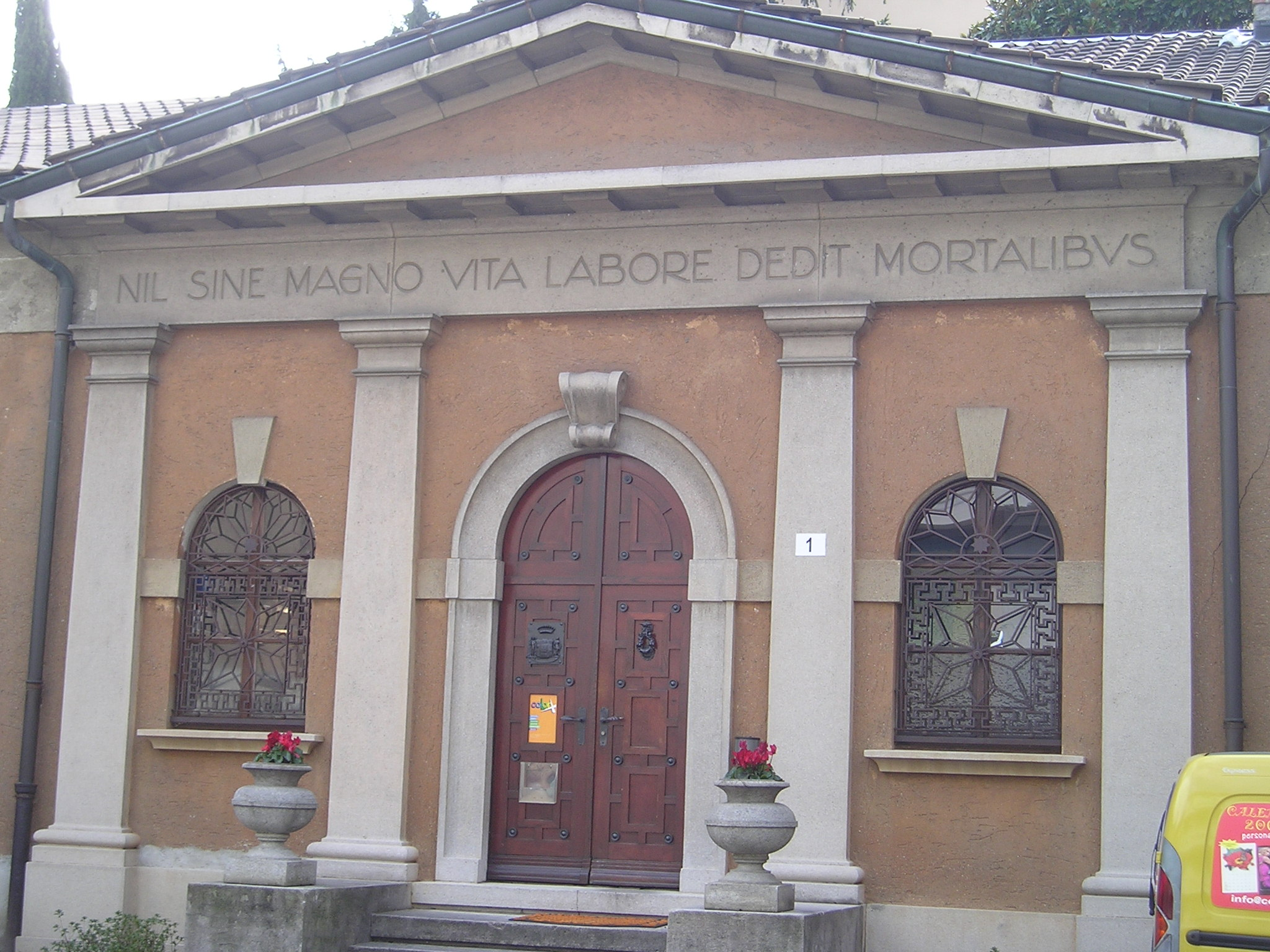 Image of a house in Lugano with a Latin inscription